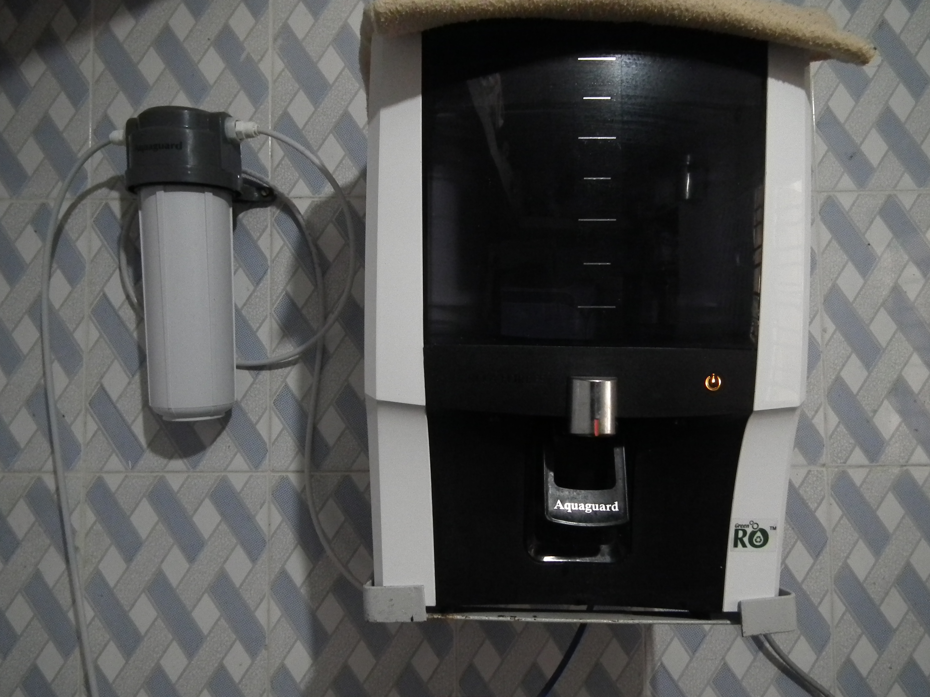 Eureka Forbs Aquaguard Water purifier - Enhanced RO.